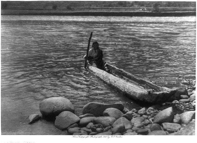 TITLE: Nez Perce Canoe CALL NUMBER: Illus. in E77.C97 [Rare Book RR] REPRODUCTION NUMBER: LC-USZ62-82996 (b&w film copy neg.) RIGHTS INFORMATION: No known restrictions on publication. SUMMARY: Indian in canoe by shore. MEDIUM: 1 photographic print. CREATED/PUBLISHED: c1910. NOTES: Photoprint copyrighted by . Illus. in: Curtis, North American Indian, v. 8, oppos. p. 46. No. X2916. Ref. copy may be in E77.C98. This record contains unverified data from caption card. Caption card tracings: Indians; Ph. Ind.; Canoes. REPOSITORY: DIGITAL ID: (b&w film copy neg.) cph 3b47826 CONTROL #: 2002710404